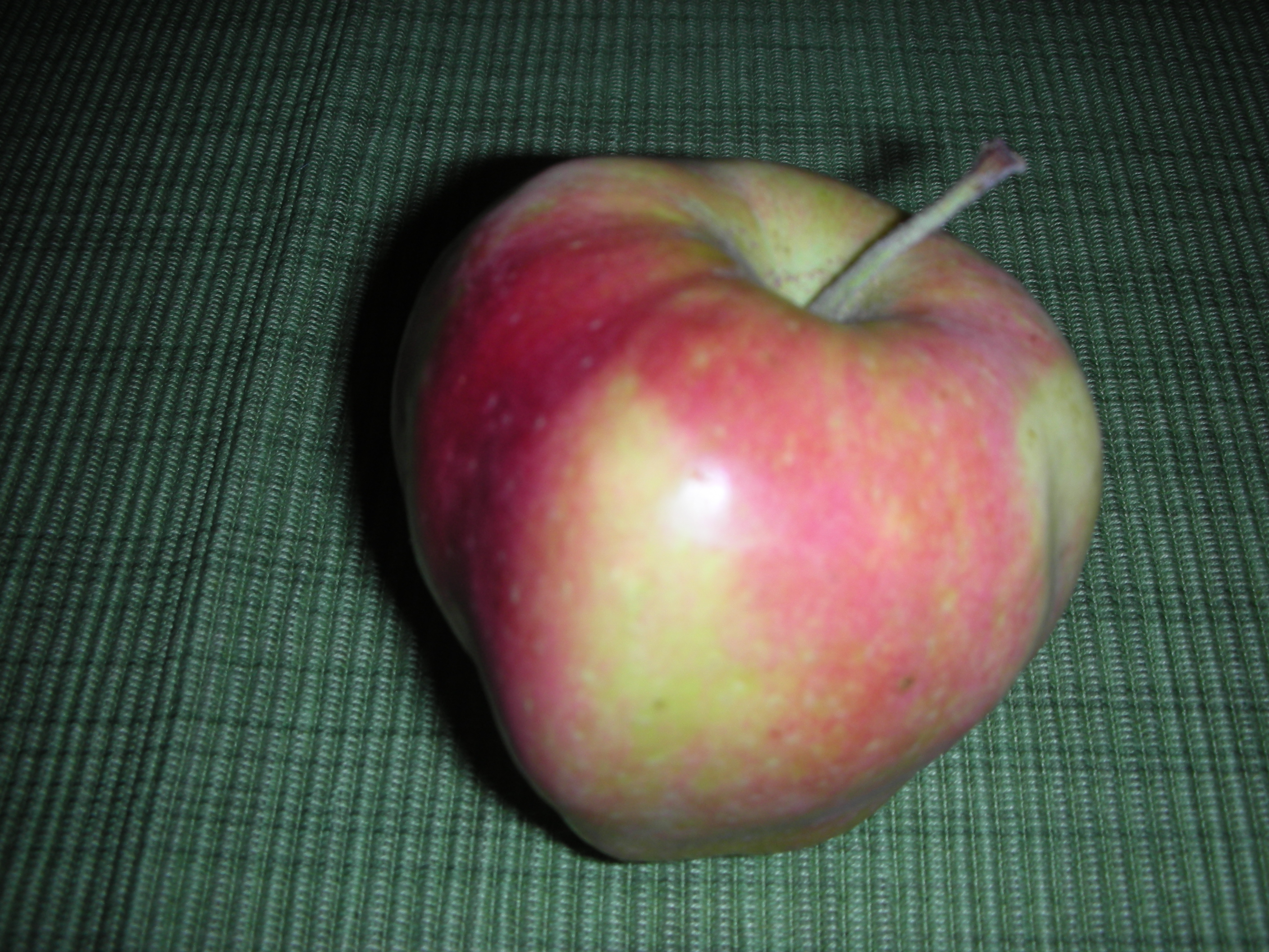 A Gloster Apple